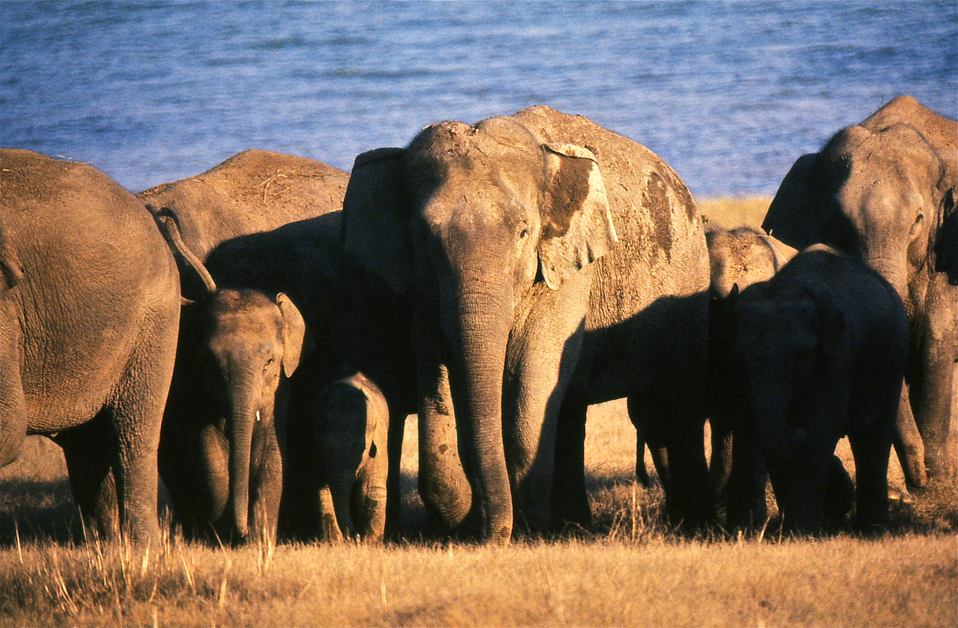 Corbett NP, Uttarakhand, INDIA Scanned Slide from February 1994